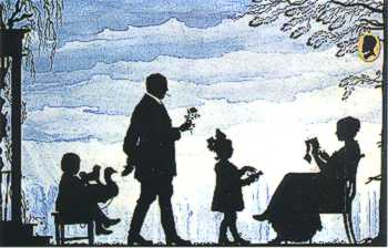 G.I.Narbut. A self-portrait with the wife (N. L. Modzalevskaja) and children. In a medallion on a tree - V.L.Modzalevsky's portrait. A silhouette.